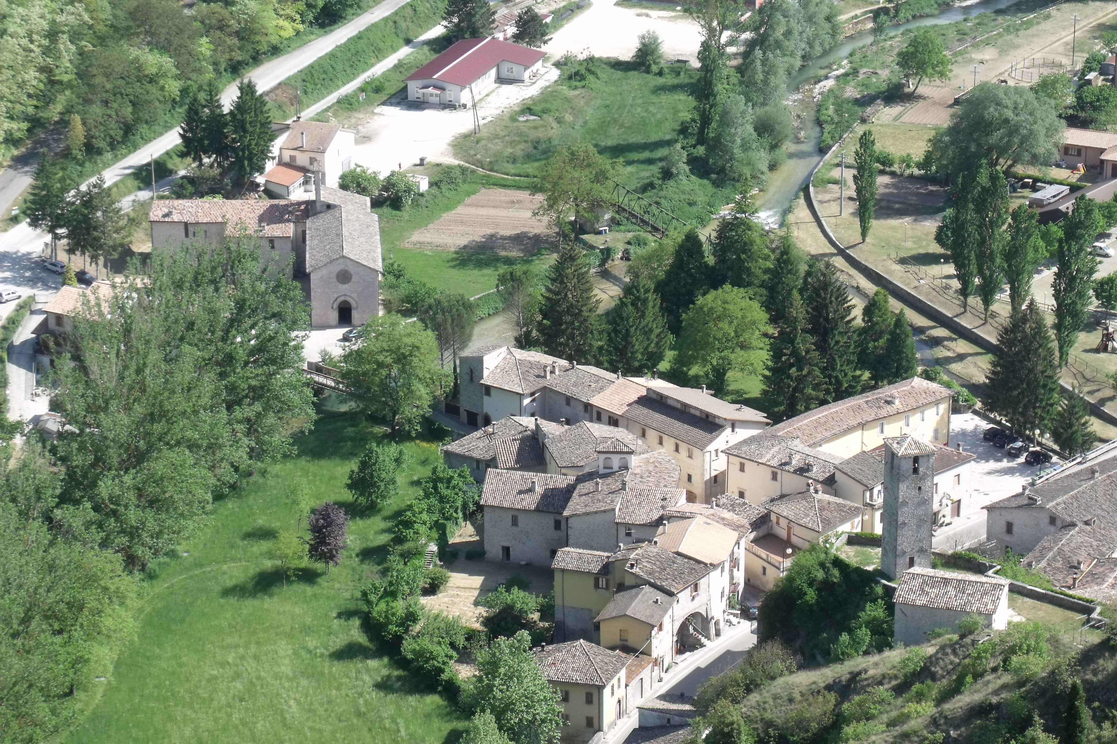 Borgo Cerreto, part of Cerreto di Spoleto, Valnerina, Province of Perugia, Umbria, Italy